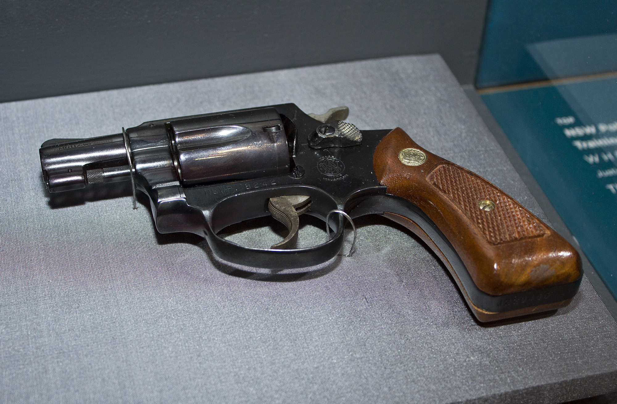 Model 36 .38 calibre Smith & Wesson which was issued to women in the NSW Police, on display at the Museum of the Riverina as part of the touring exhibition The Force: 150 years of NSW Police.